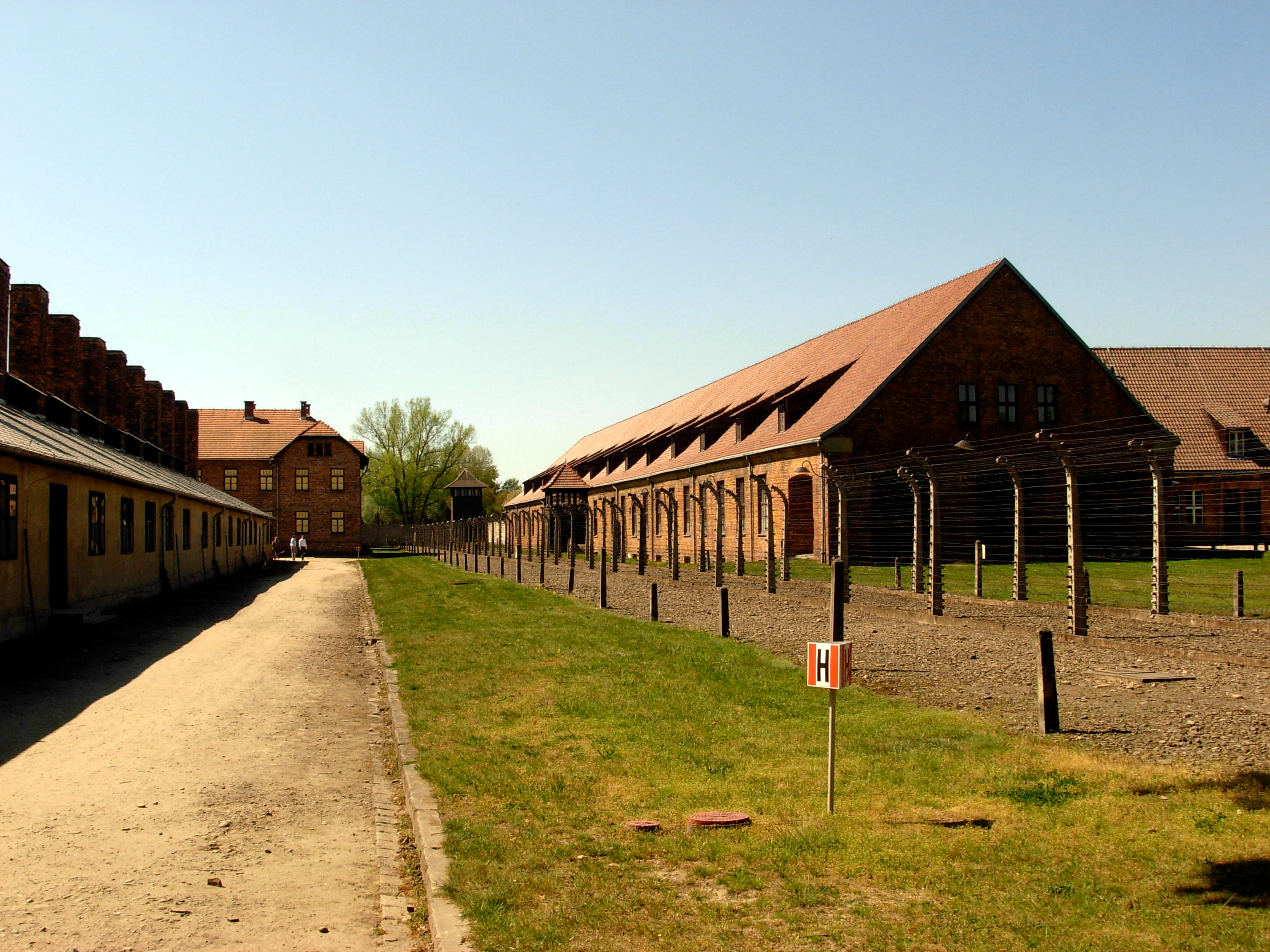 KZ Auschwitz I